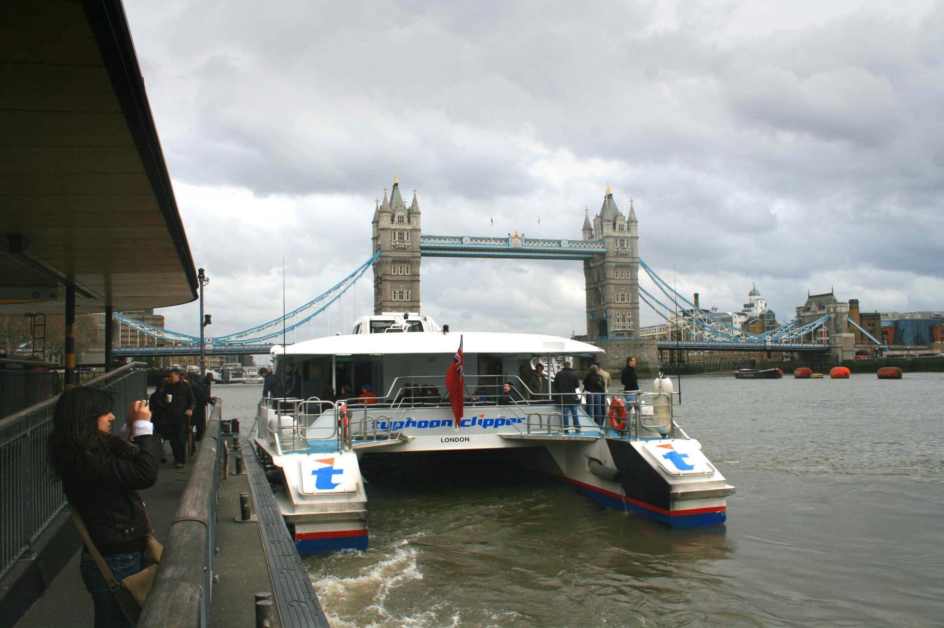 A Thames Clipper catamaran about to depart from Tower Millennium Pier on the River Thames, London, UK (Tower Bridge in the background)